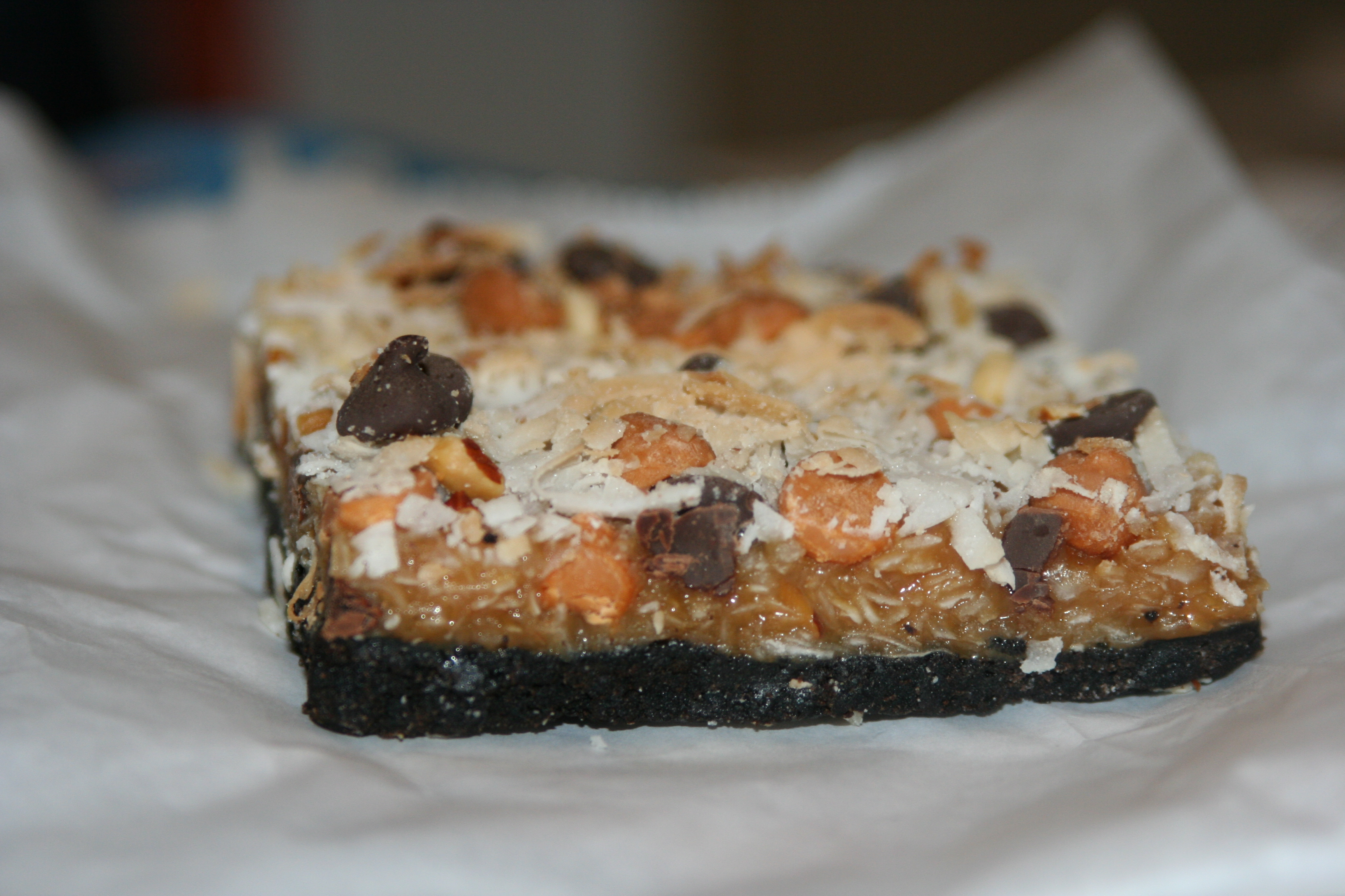 Bar with a layer of coconut and caramel, butterscotch and chocolate chips, almonds, an Oreo Cookie crust.